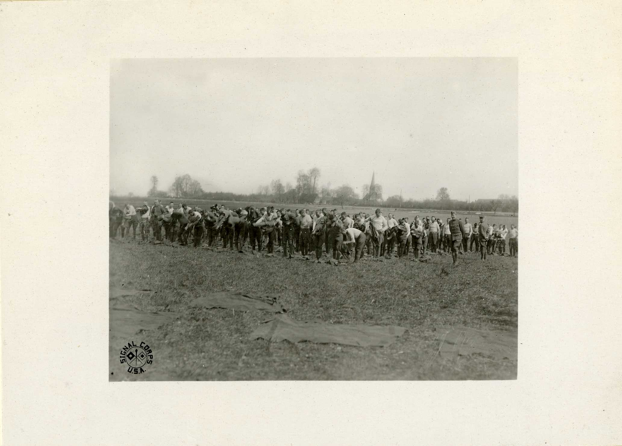 France. Inspecting clothing for vermin, Company E, 28th Infantry. Cooties. Reading shirts. 129-Y8-T